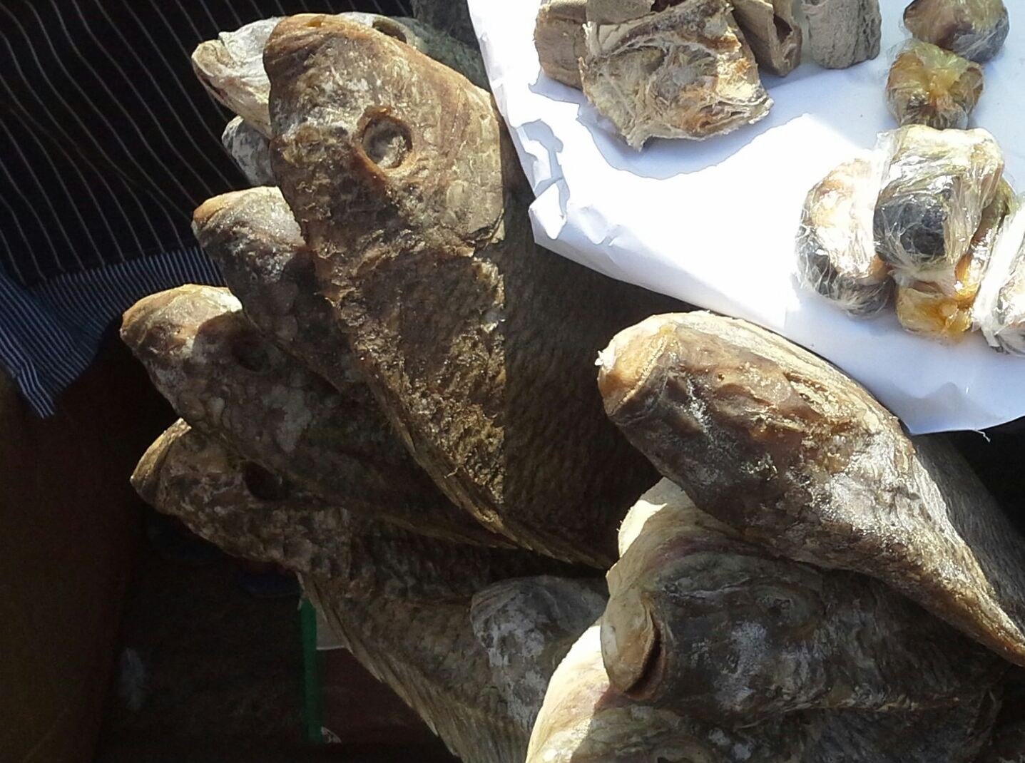 A Ghanaian delicacy. It is dried tilapia that has been salted.